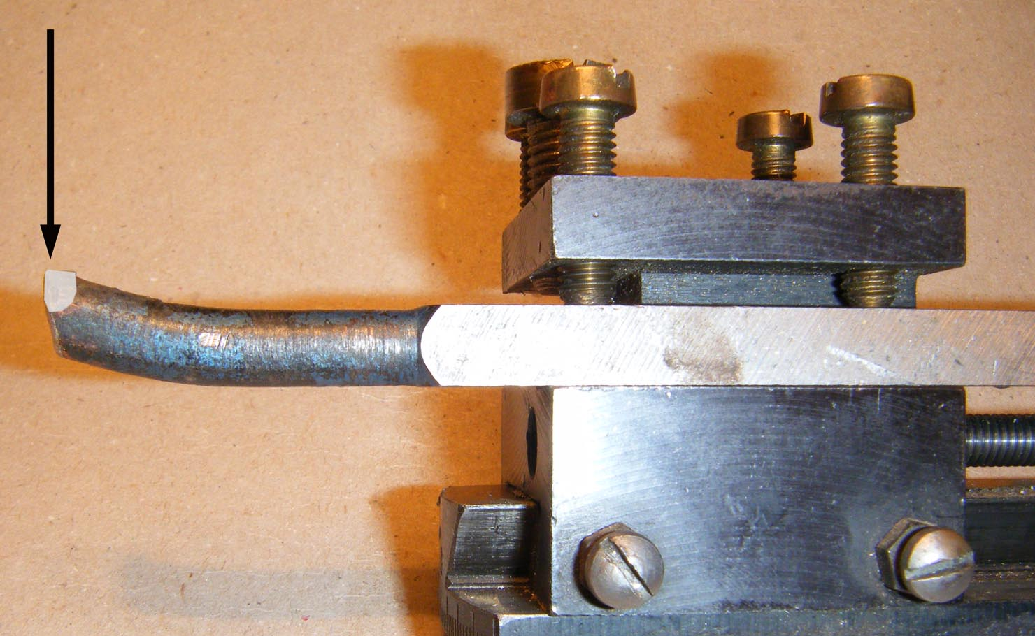 tool for lathe4